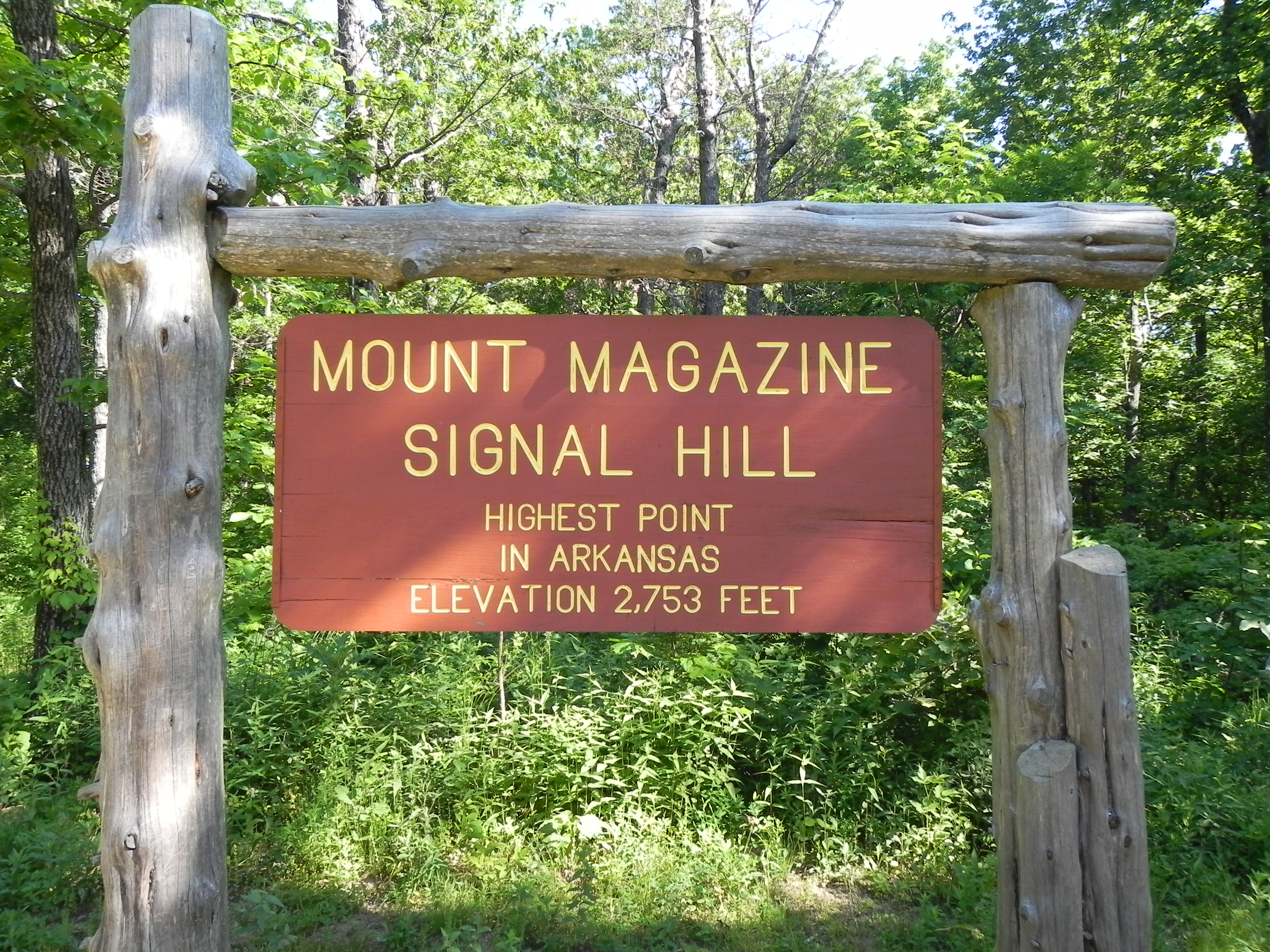 The sign at the summit of Mount Magazine — the highest point in Arkansas. In the Ouachita Mountains, within Mount Magazine State Park.